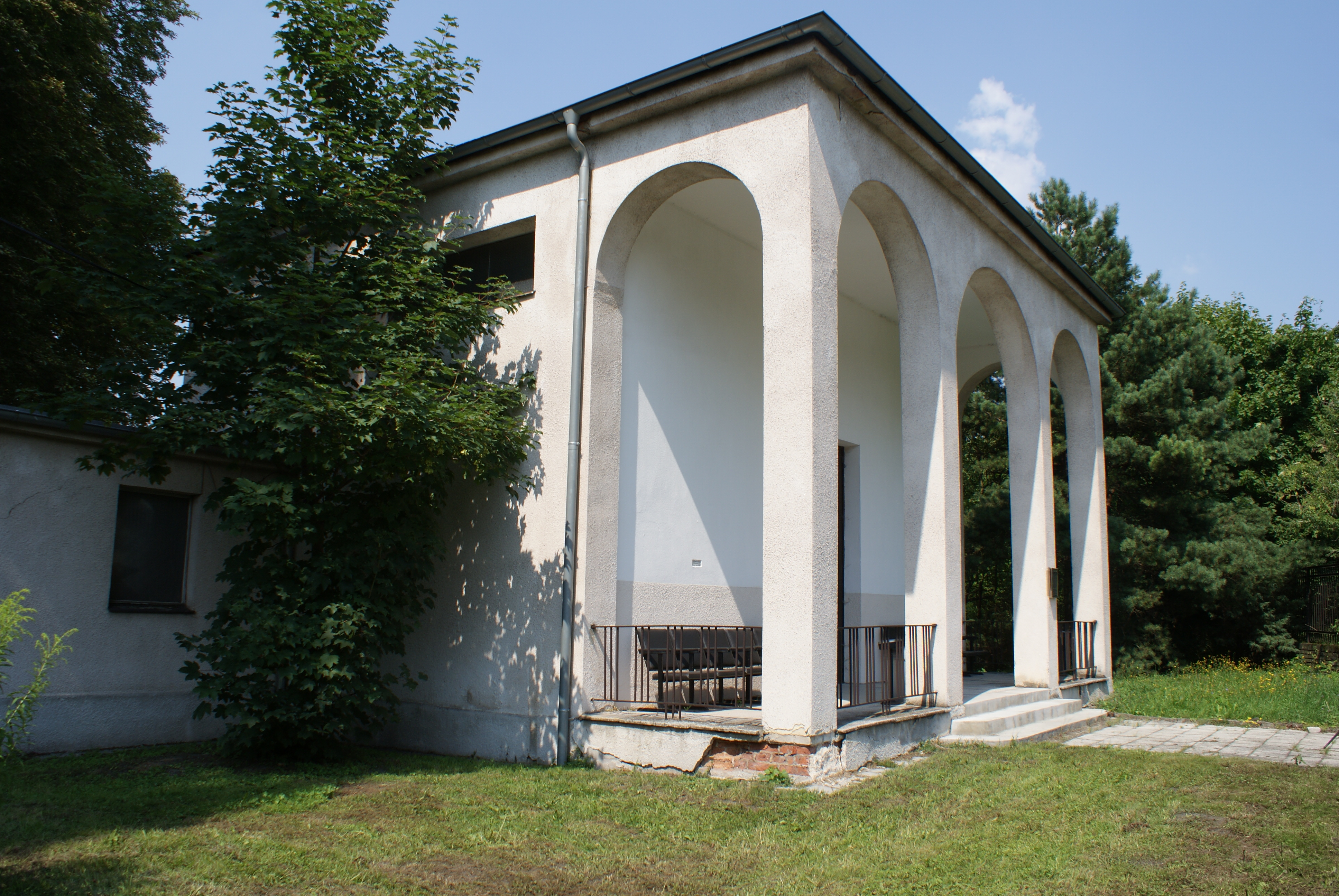 Jewish cemetery in Kladno, a town in Central Bohemian region, Czech Republic.